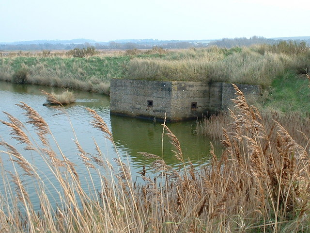 Coastal defence at Titchwell, Norfolk. An old World War II concrete bunker seen on the Titchwell RSPB reserve.